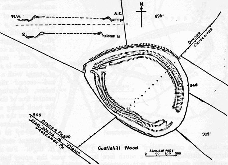 Map of earthworks at Maesbury Camp, Somerset, England.